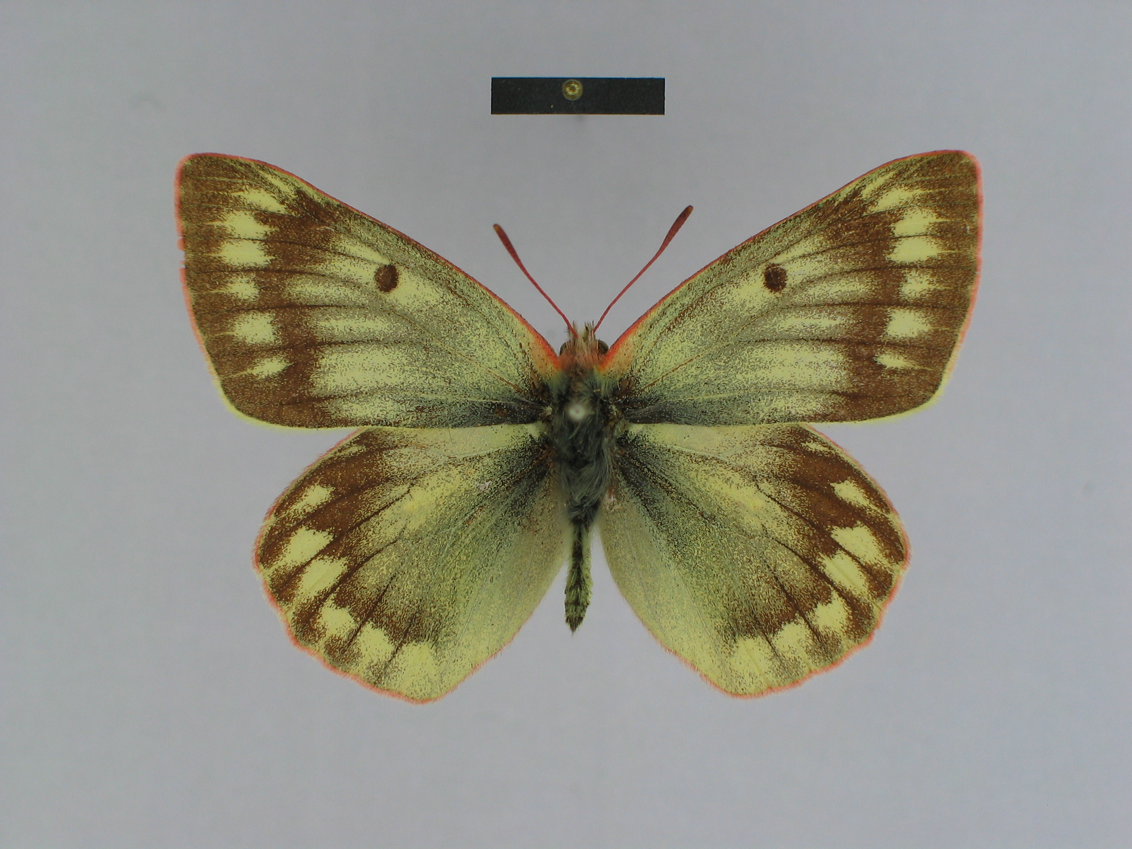 Paralectotype of the species Colias cocandica maja from the collection of the Zoological Museum of the Zoological Institute of the Russian Academy of Sciences (Berlin); ♂ dorsal side; scalebar=1 cm